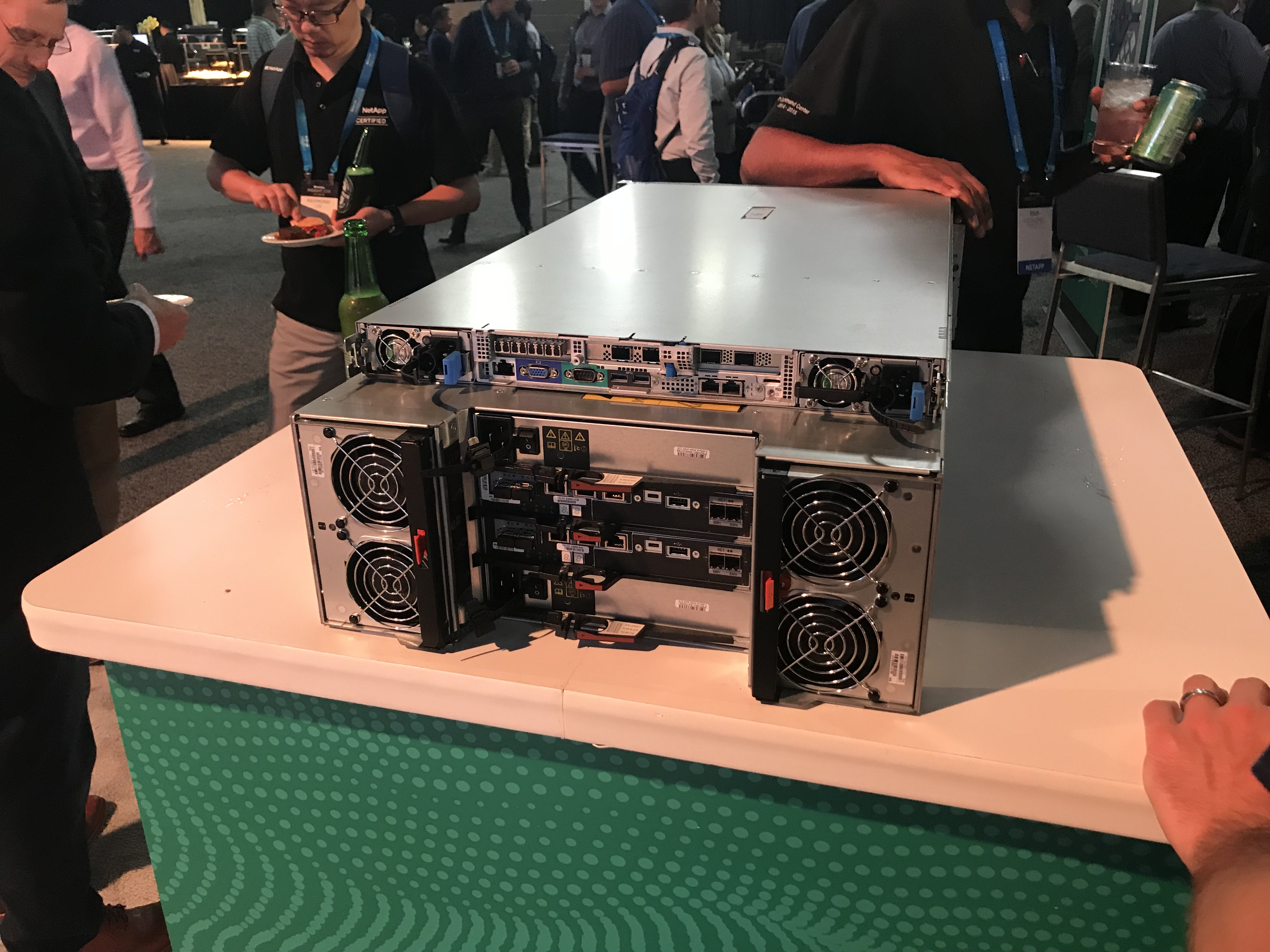 NetApp Object storage appliance